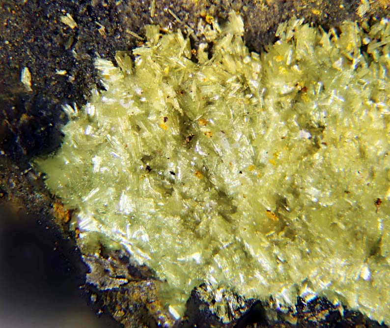 Oustanding yellow green crystals of the extremely rare mineral alterite (IMA 2018-070) from the type and only known locality worldwide: Cliff Dwellers Lodge, Coconino County, Arizona, United States of America. Alterite, Zn2Fe3+4(SO4)4(C2O4)2(OH)4· 17H2O, is the 23rd oxalate species, first natural Zn oxalate mineral to date, so it is at the same time an organic and an inorganic mineral.